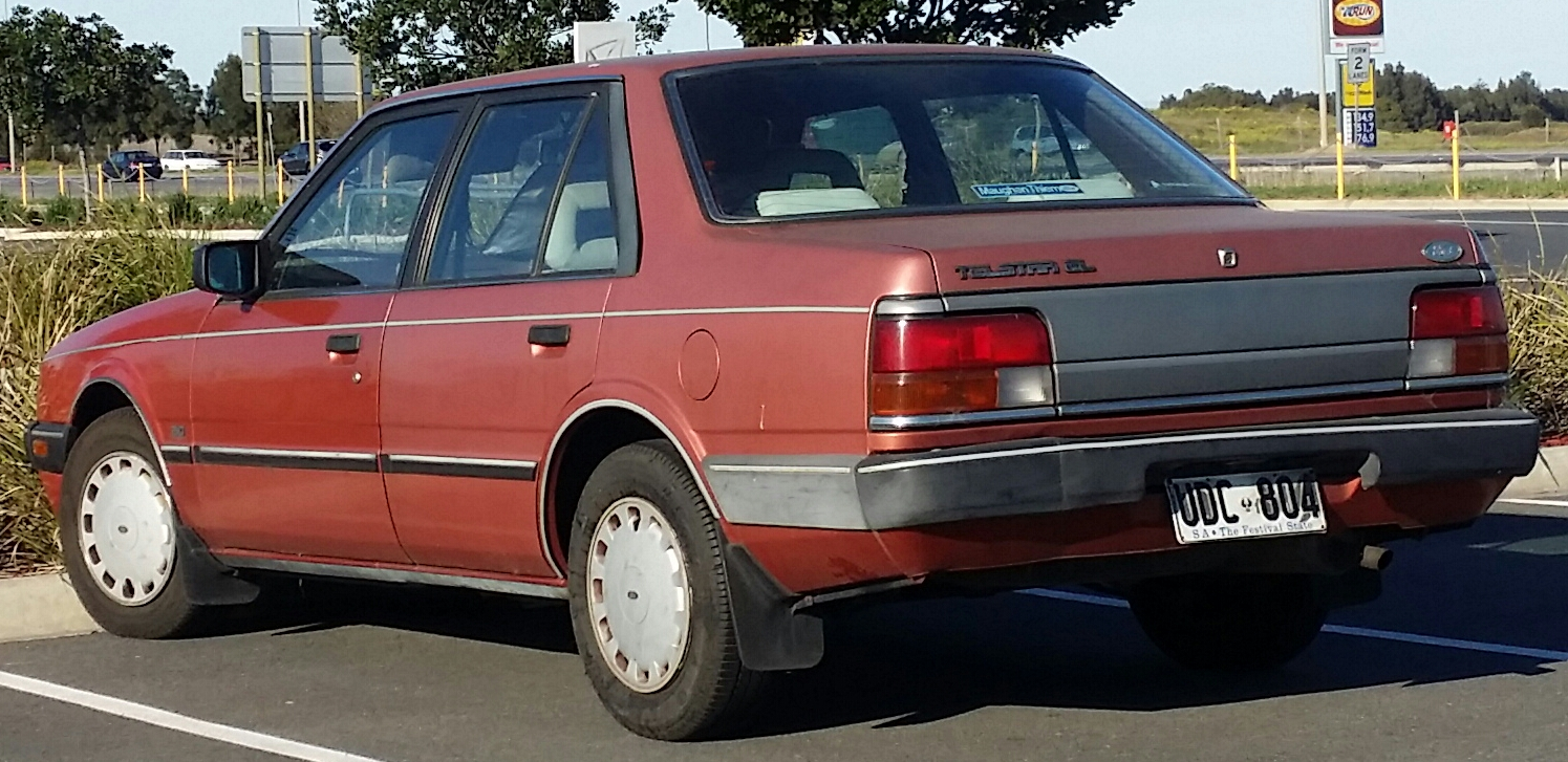 Has seen better days, but coming across these on the road nowadays and as silly as this may sound, is like a breath of fresh air!